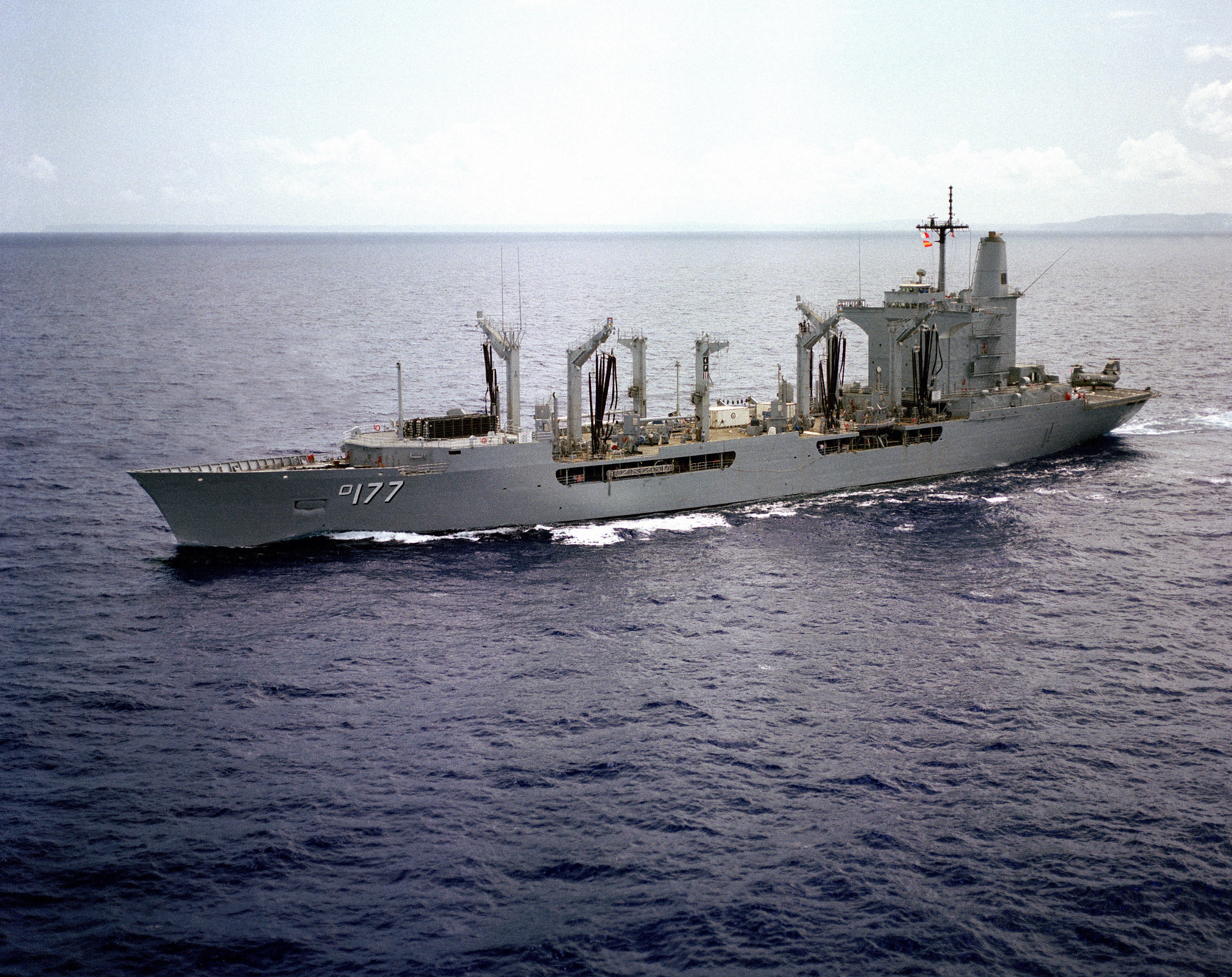 The U.S. Navy fleet oiler USS Cimarron (AO-177) underway off Apra Harbor, Guam, on 21 March 1983.